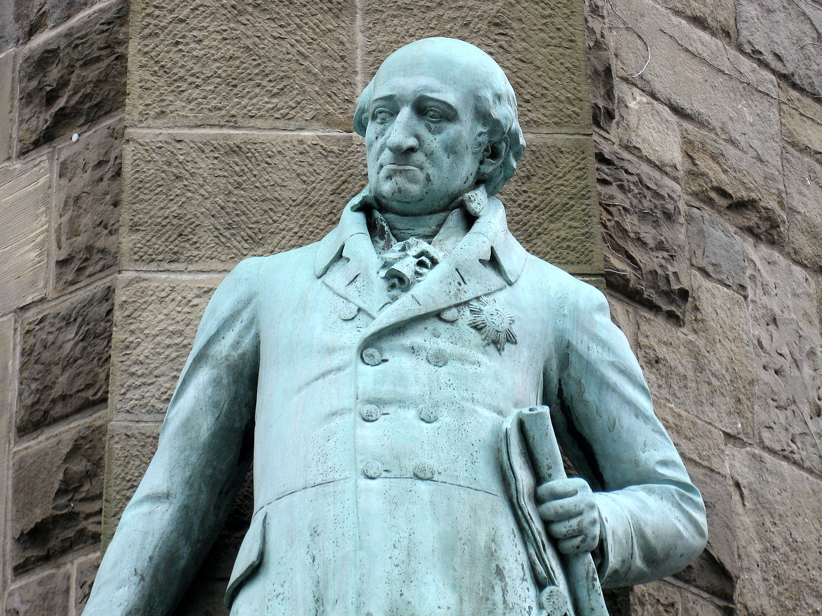 Heinrich Friedrich Karl Freiherr vom Stein at city hall of Wetter, Germany, sculpted by Richard Grüttner, 1909